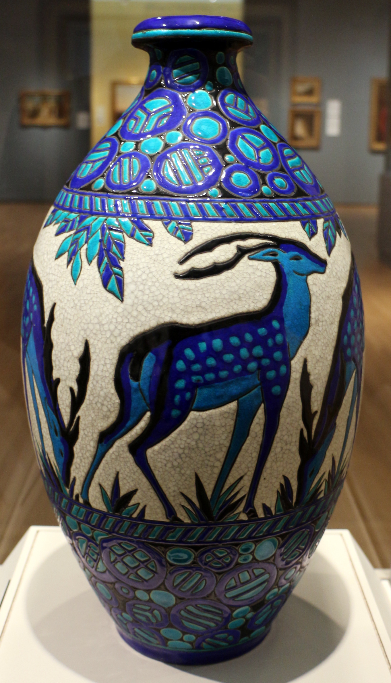 Ceramics in the Speed Art Museum